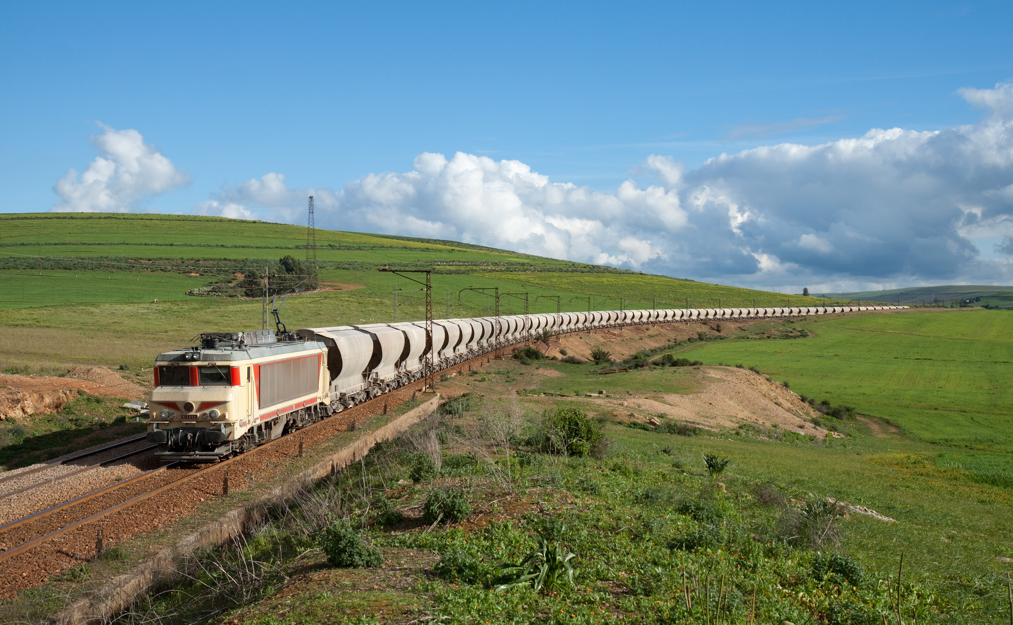 An ONCF E 1350 locomotive (heavier and stronger version of the E 1300) with a phosphate train on its way from somewhere near Khouribga to the port of Casablanca, Morocco. The picture was taken near Tamdrost, a few kilometers before the phosphate line meets the main line Marrakech - Casablanca.